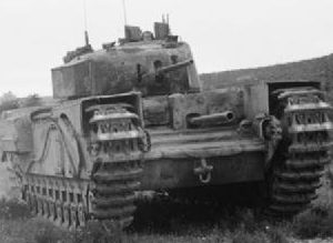 Churchill tank 'Indus' of 'B' Squadron, 9th Royal Tank Regiment, during an exercise at Tilshead on Salisbury Plain, UK. This vehicle, 'Indus' of 'B' Squadron. This vehicle is a Mk I with hull-mounted 3-inch close support howitzer.